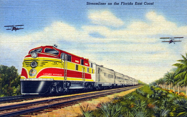 Local call number: PC2949 Title: Streamliner on the Florida East Coast Date: ca. 1945 Physical descrip: 1 postcard; col.; 9 x 14 cm. Series Title: Postcard collection General note: Postmarked May 7, 1945. Repository: State Library and Archives of Florida, 500 S. Bronough St., Tallahassee, FL 32399-0250 USA. Contact: 850.245.6700. Persistent URL